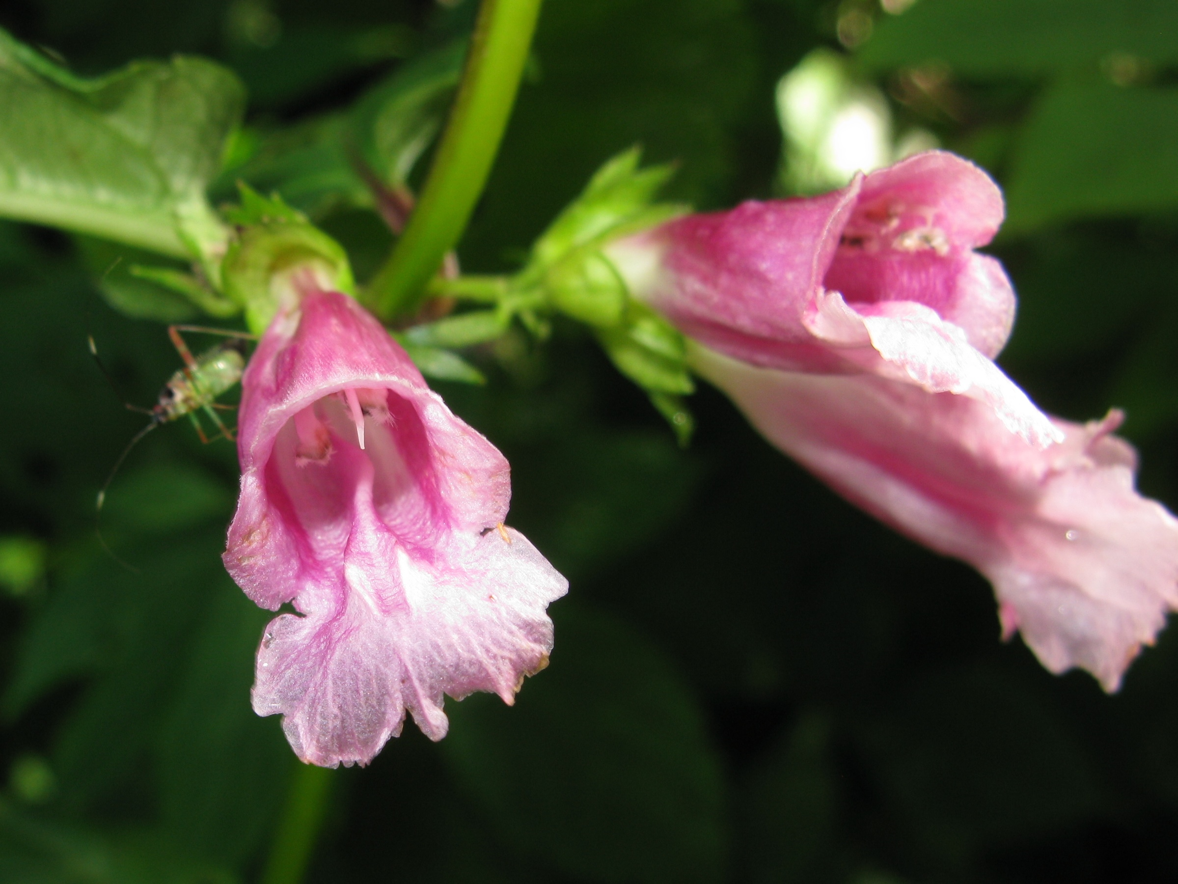 Chelonopsis moschata, Niigata pref., Japan